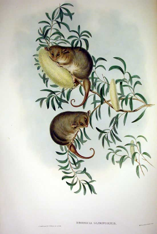 Cercartetus nanus Photo from "Mammals of Australia", Vol. I Plate 29 Part of the 3 Volumes by John Gould, F.R.S. Published by the author, 26 Charlotte Street, Bedford Square, London, 1863